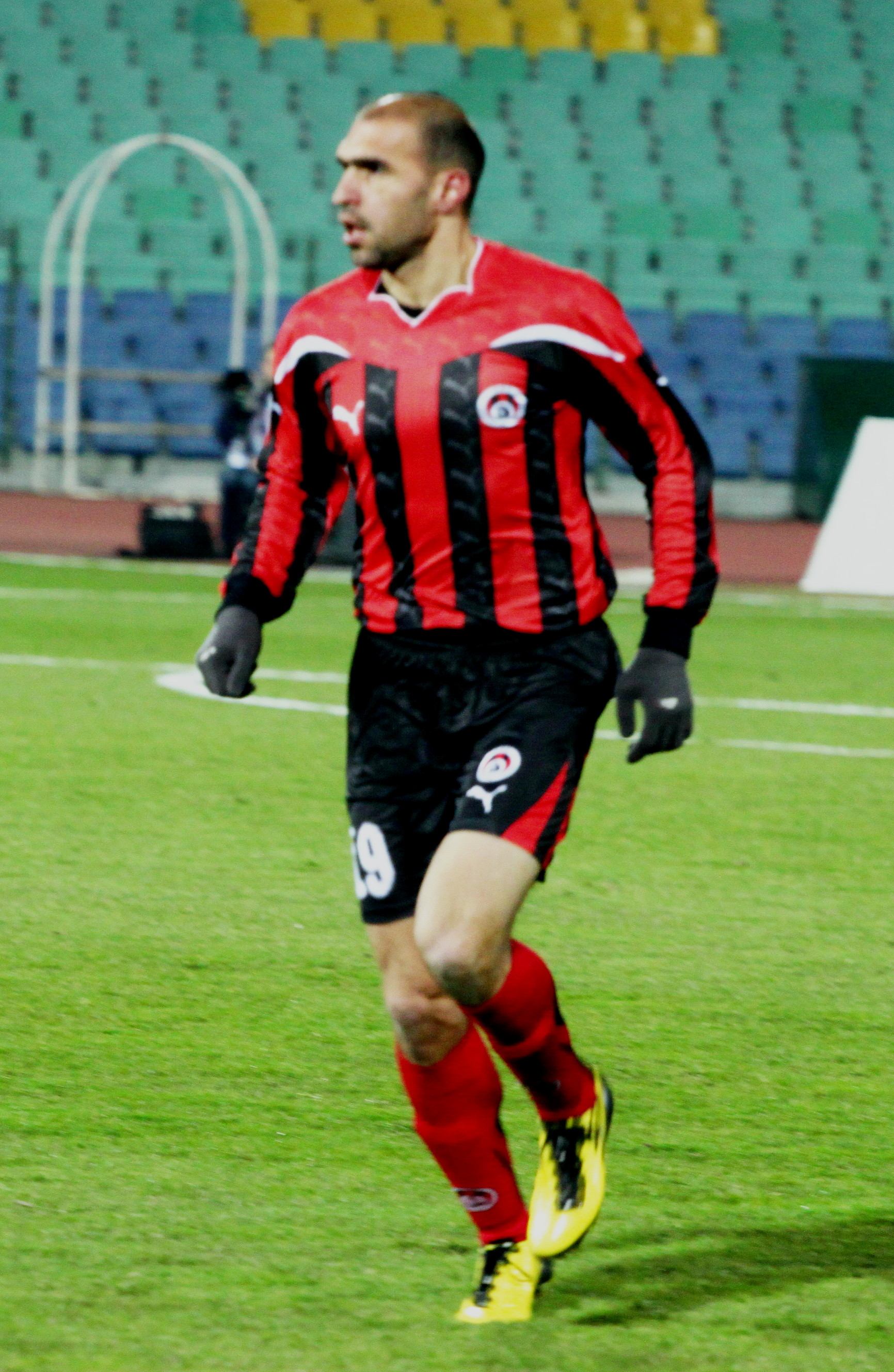 Yordan Varbanov (Bulgarian: Йордан Върбанов) (born 15 February 1980) is a Bulgarian footballer who plays for Lokomotiv Sofia as a defender.